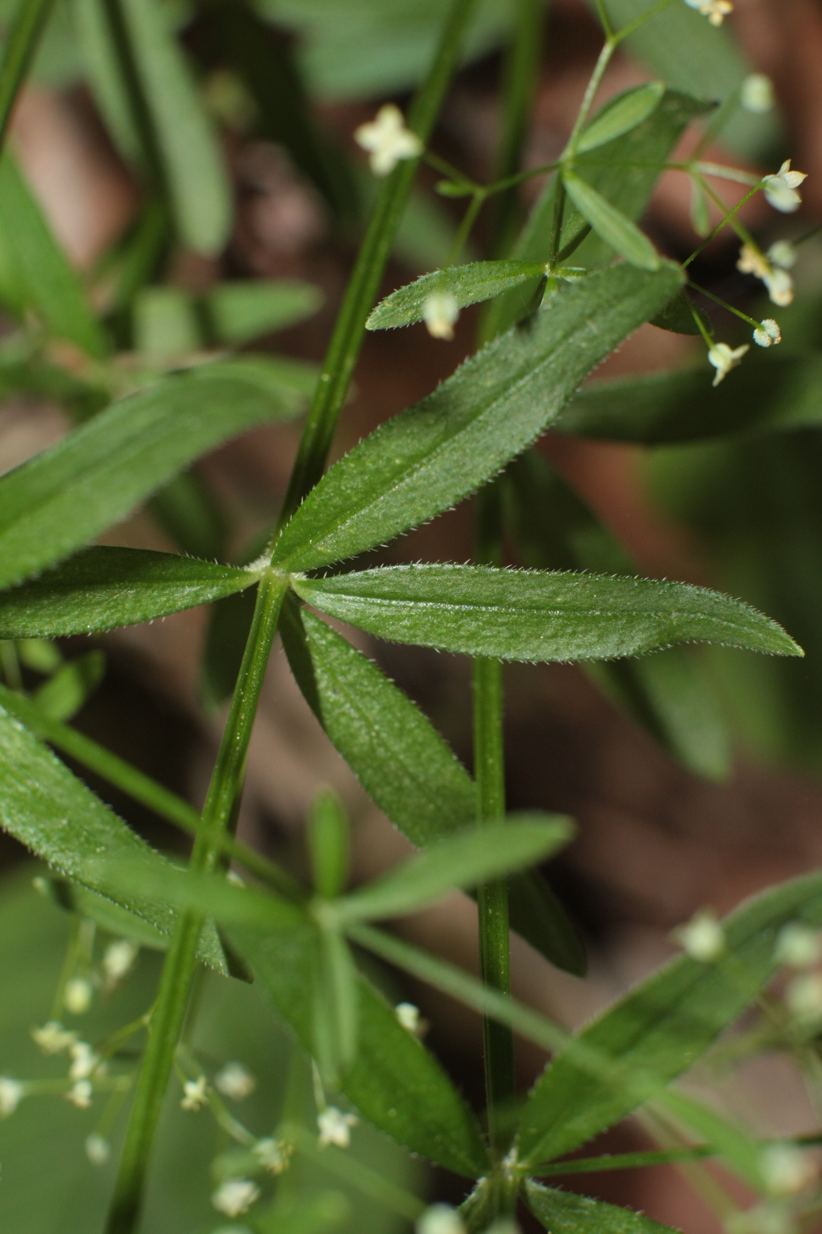 Galium trifidum